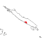 Image showing the extension of the zazao language on the island of Santa Isabel